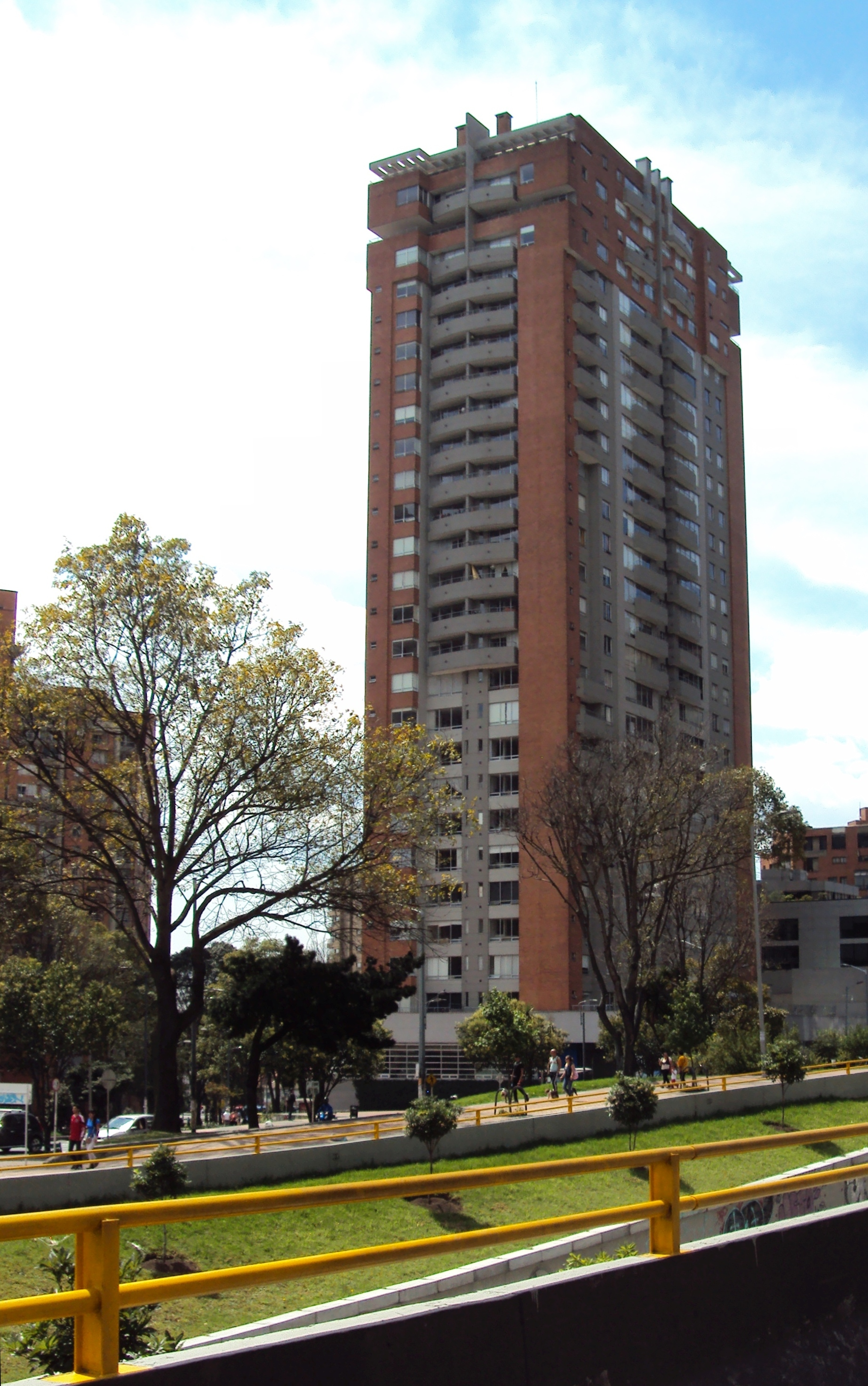 Residential apartment building as seen from Carrera Séptima and across Carrera Trece